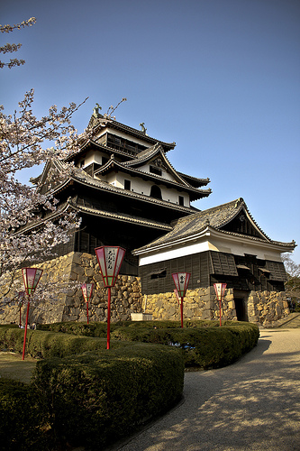 Matsue Castle during cherry blossom season. Photographed by Greg Ferguson, April 2010.